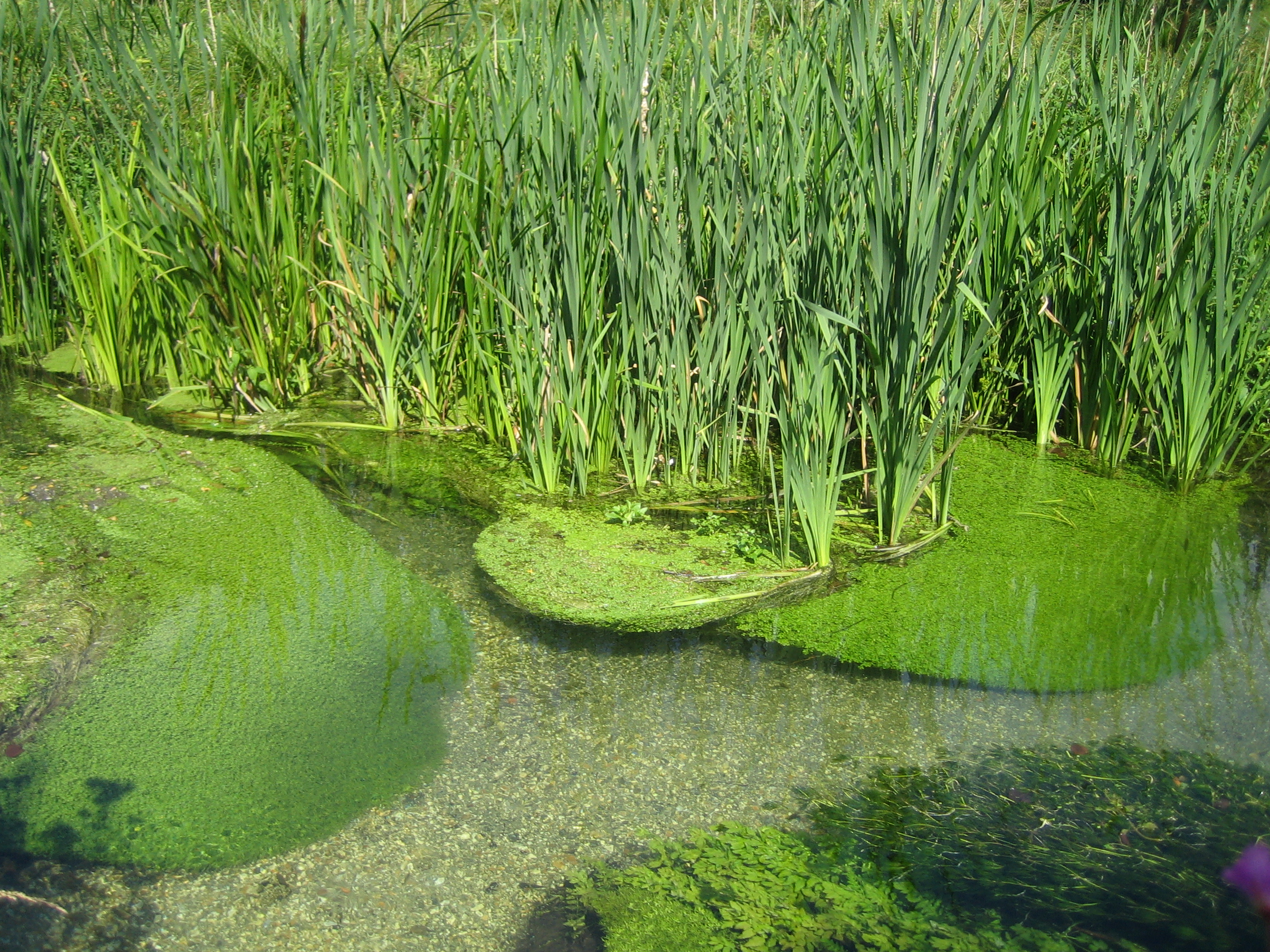 The River Itchen near Ovington in Hampshire, taken by Joolz in August 2005.